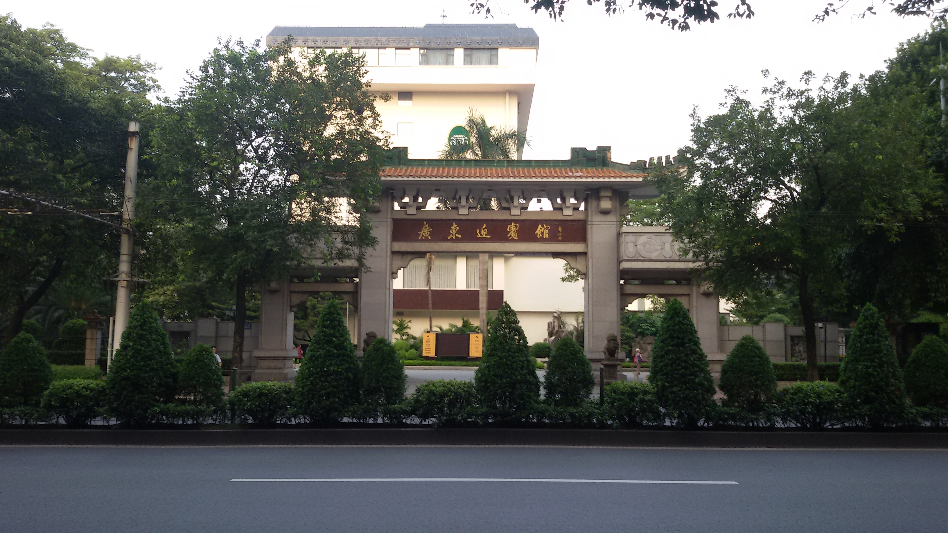 GUANGDONG GUEST HOTEL